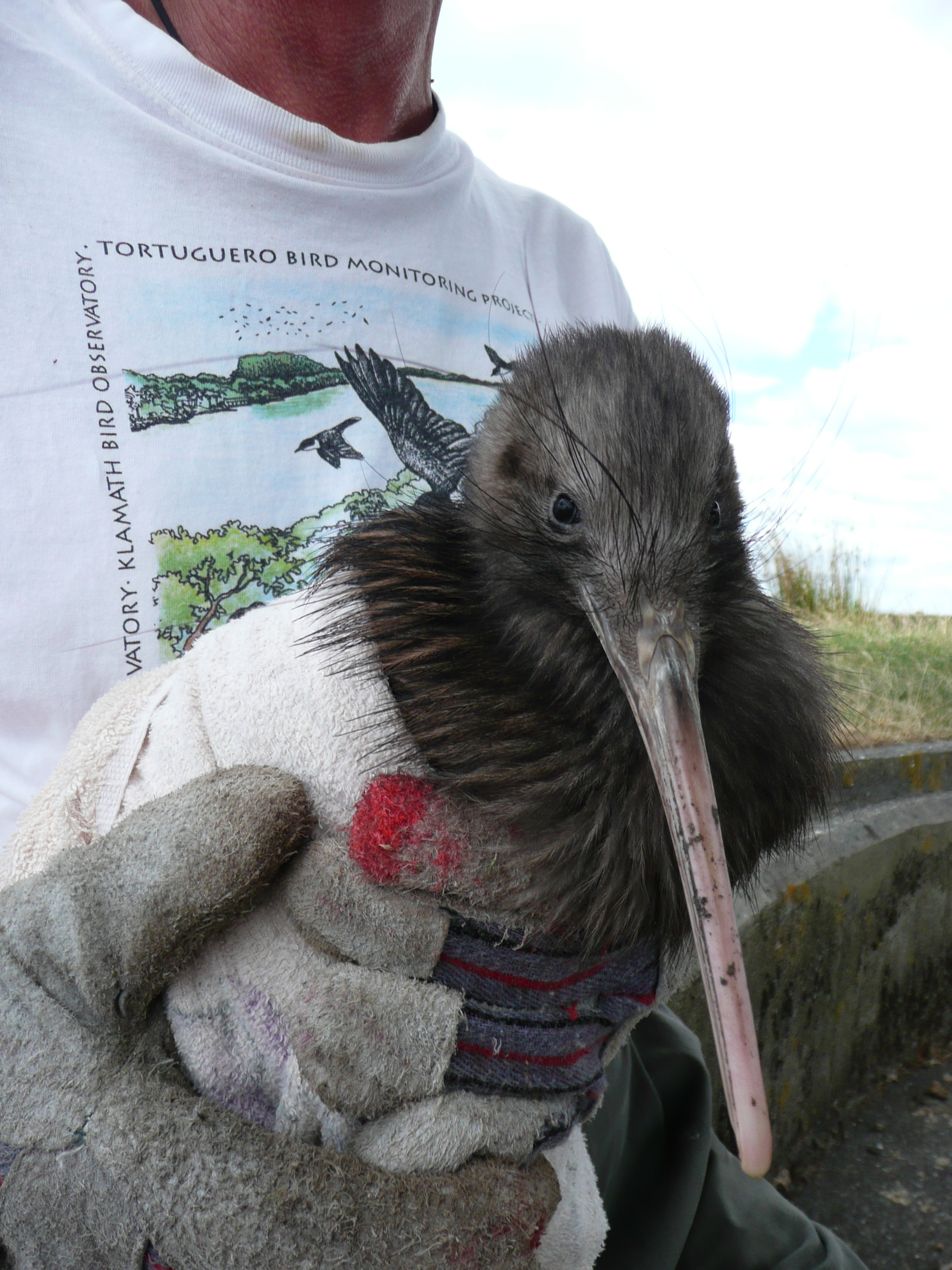 A North Island Brown Kiwi on Motuora Island, Sugar Loaf Islands, New Zealand.